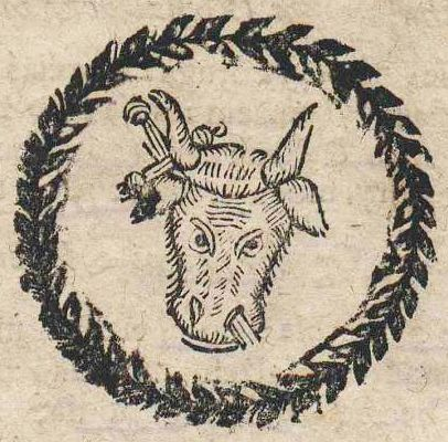 Pomian coat of arms by Wacław potocki